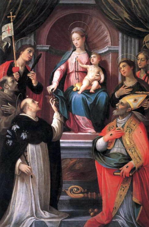 Gaspare Mannucci - Madonna del rosario